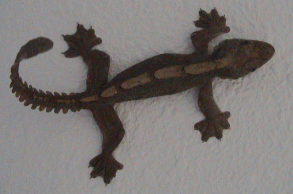 Imported from en. Original description: Photography: LA Dawson Description: Flying Gecko, Ptychozoon kuhli Original licence: creative common.